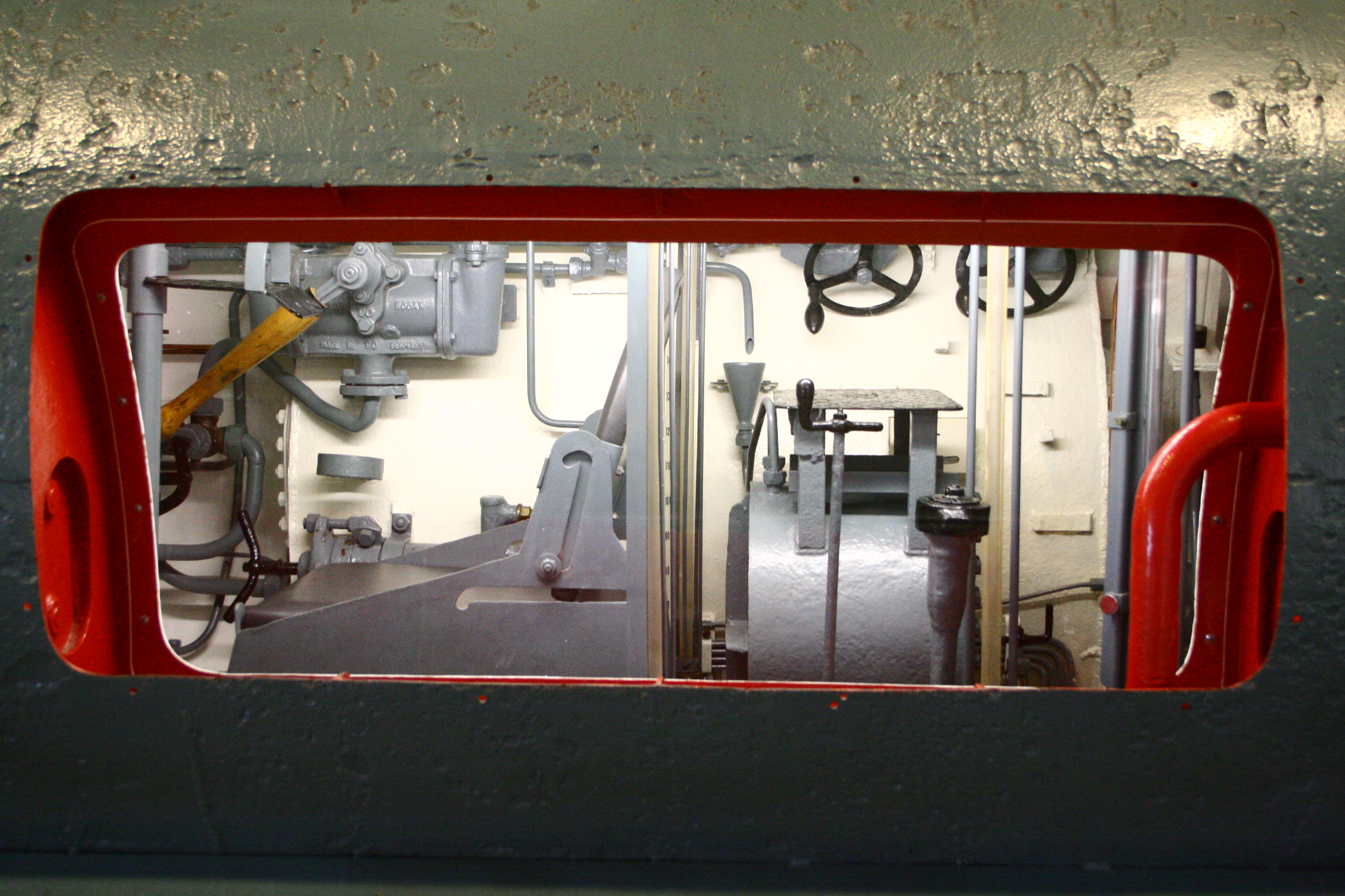 German Shipping Museum Bremerhaven